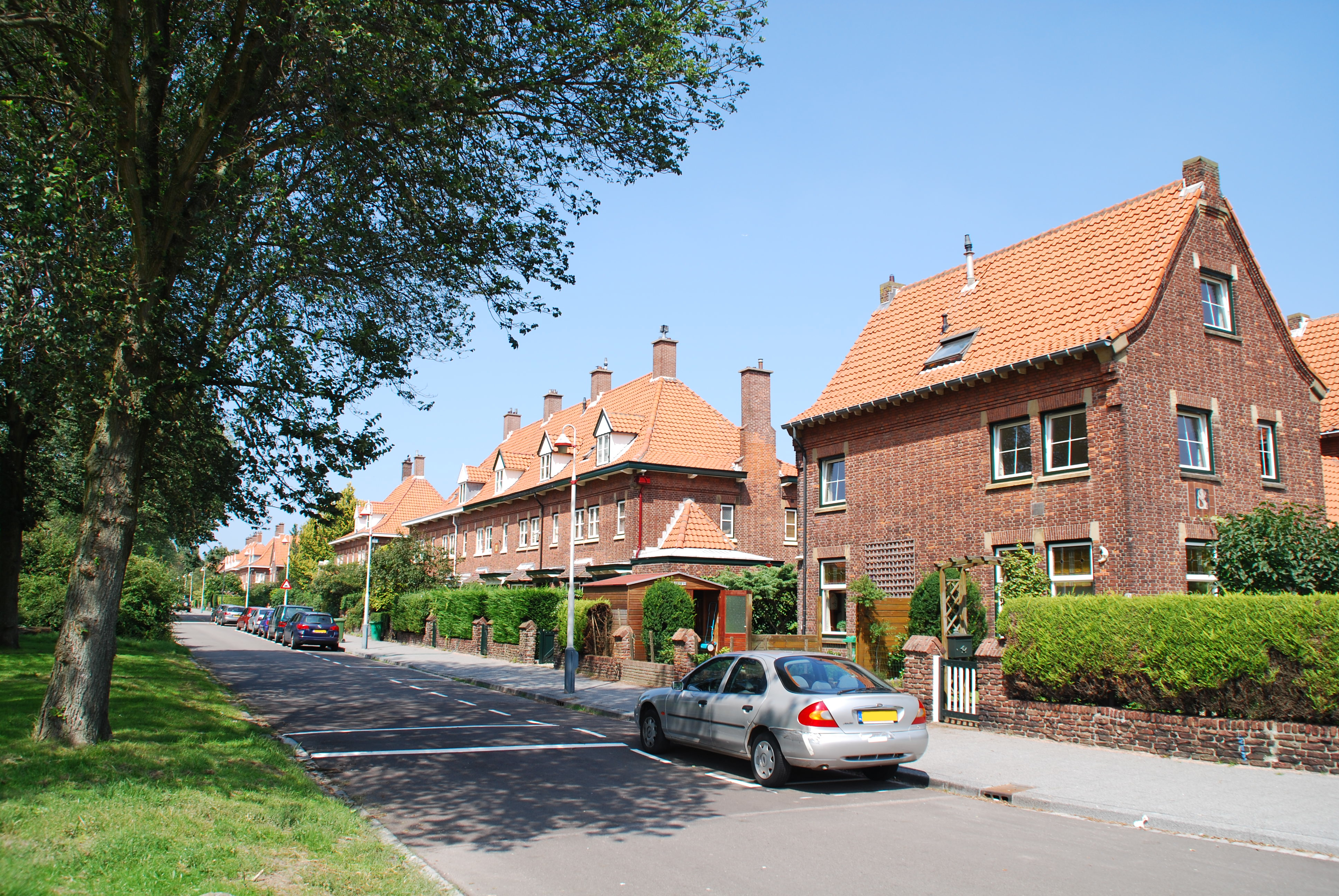 Houses at the Kwartellaan in The Hague. Part of a 1927 project of 86 houses designed by Alexander Kropholler